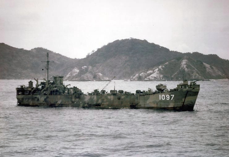 USS LST-1097 anchored in the Kerama Retto, Ryukyu Islands (Japan), in June 1945, at the close of the Okinawa campaign. The ship is painted in a green colour design of the Measure 31-32-33 series. LST-1097 later became USS League Island (AG-149 and AKS-30).